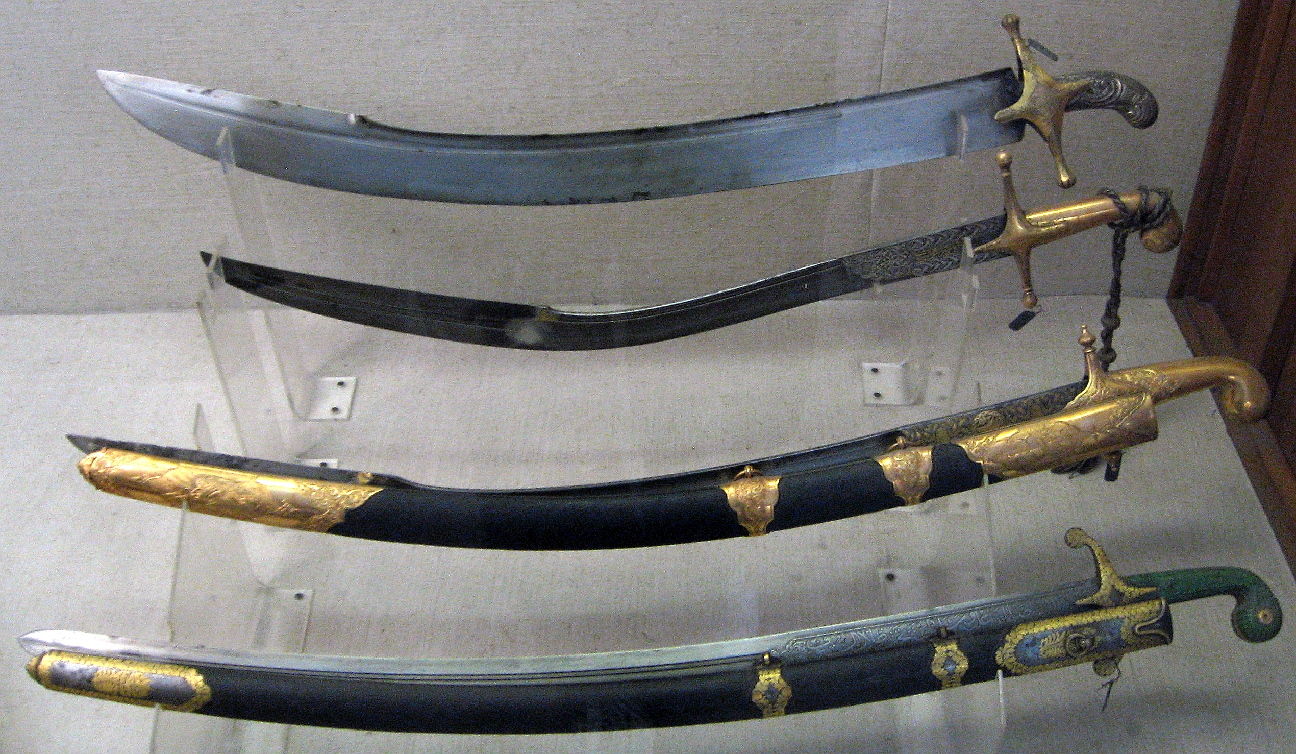 Turkish swords.